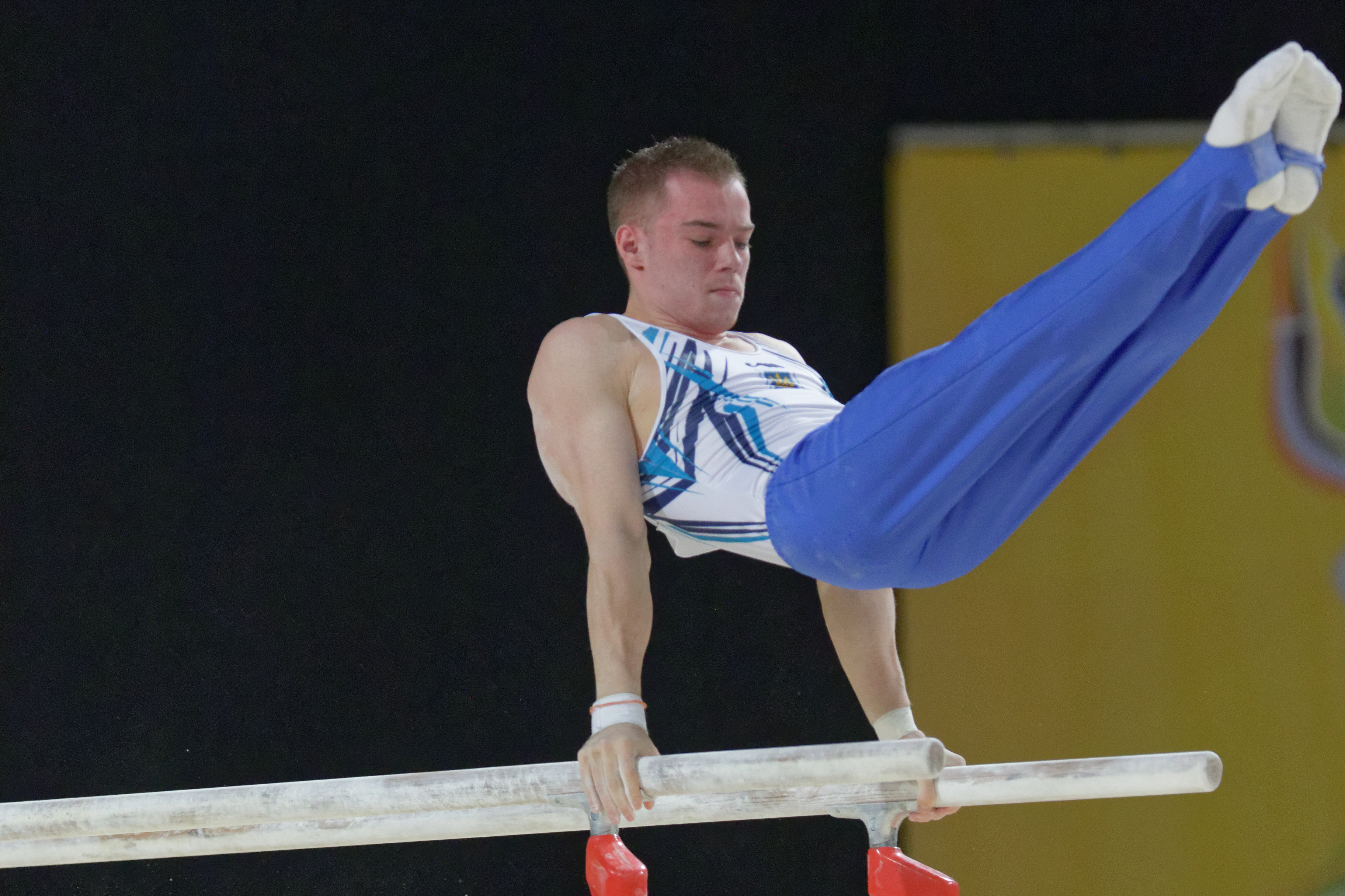 2015 European Artistic Gymnastics Championships.